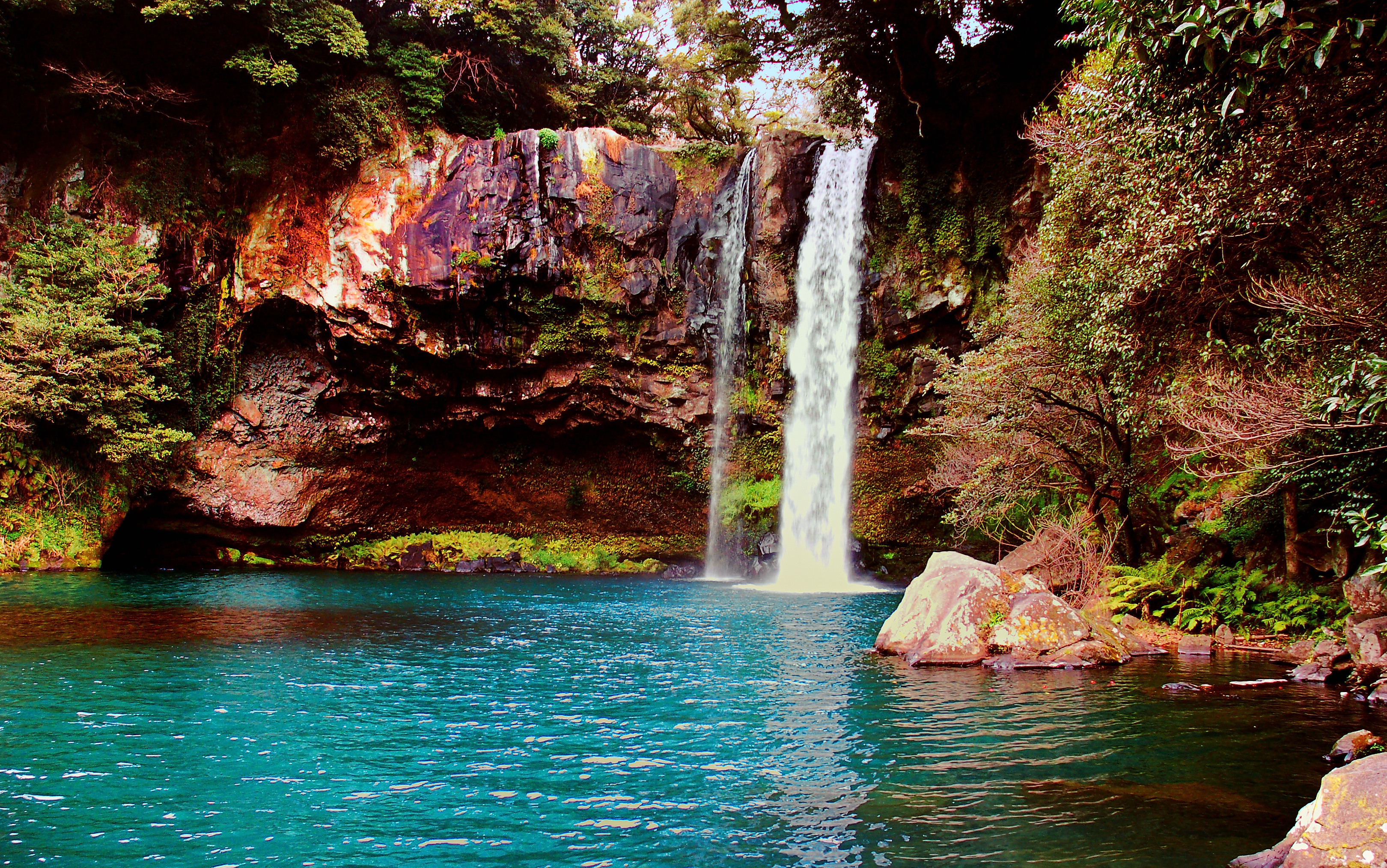 This image is a fully post-processed version of a snapshot that I uploaded in February, 2006, based on a request for a print of it from my sister. I'm not that crazy about the shot, but she really likes it.